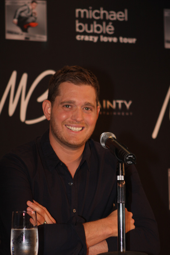 Multi-platinum artist Michael Bublé, in September 2003, sang at "Blue Note" Jazz Club, in Manhattan's Greenwich Village, New York City.